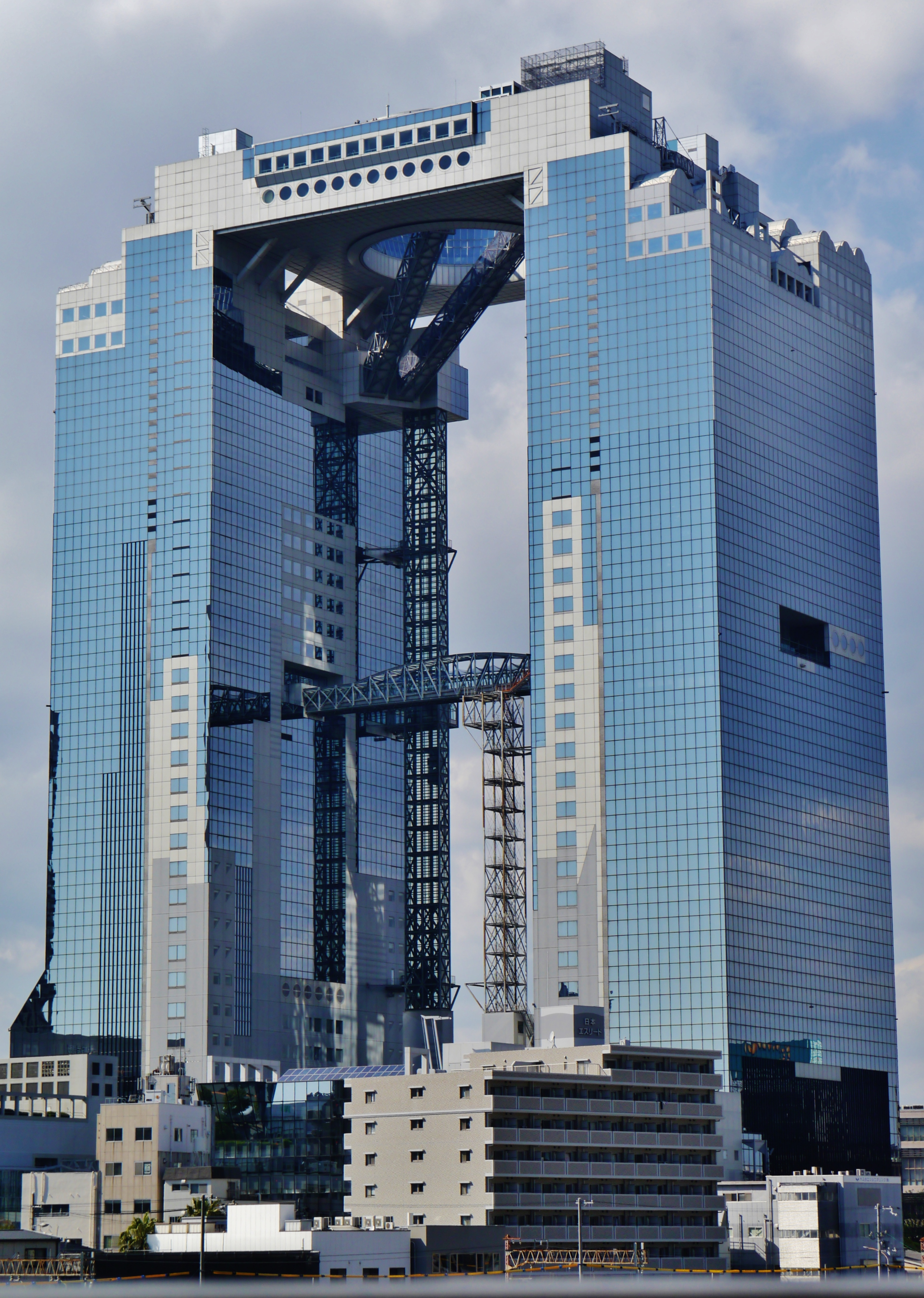 Umeda Sky Building, Osaka, Osaka Prefecture, Kinki Region, Japan